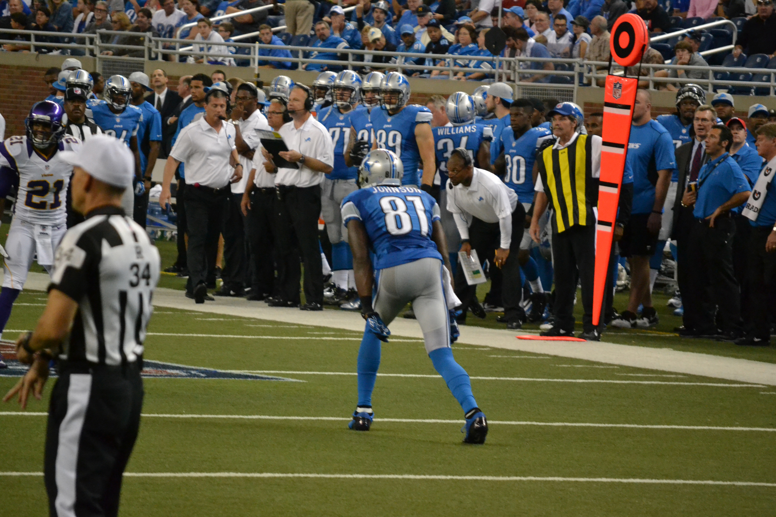 Minnesota Vikings cornerback (#21) Josh Robinson guards Detroit Lions wide receiver (#81) Calvin Johnson.